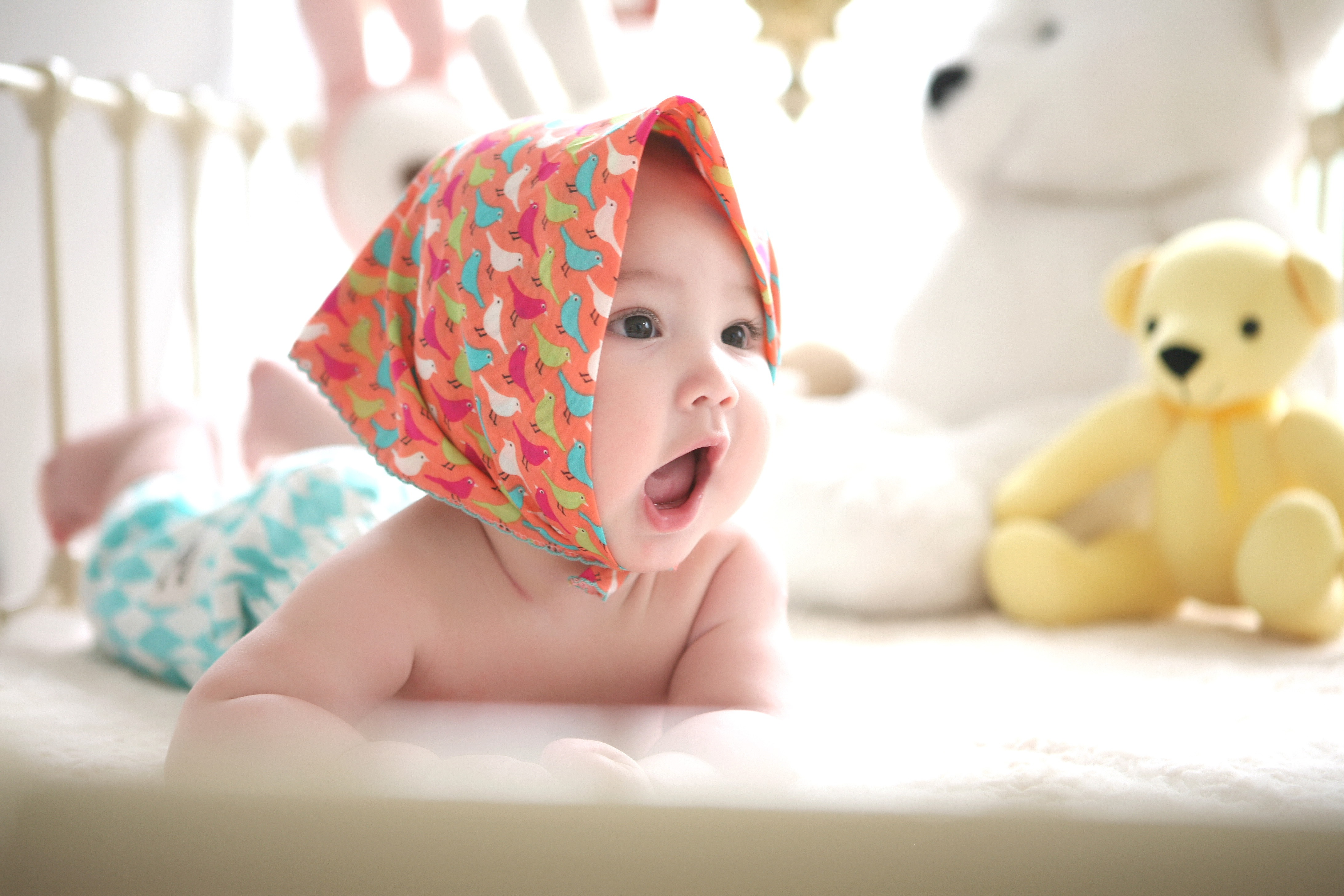 Child lying in a crib.